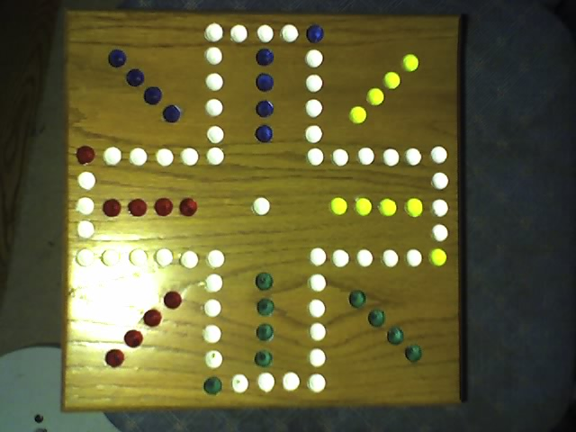 a picture of an aggravation board that my grandfather made out of wood